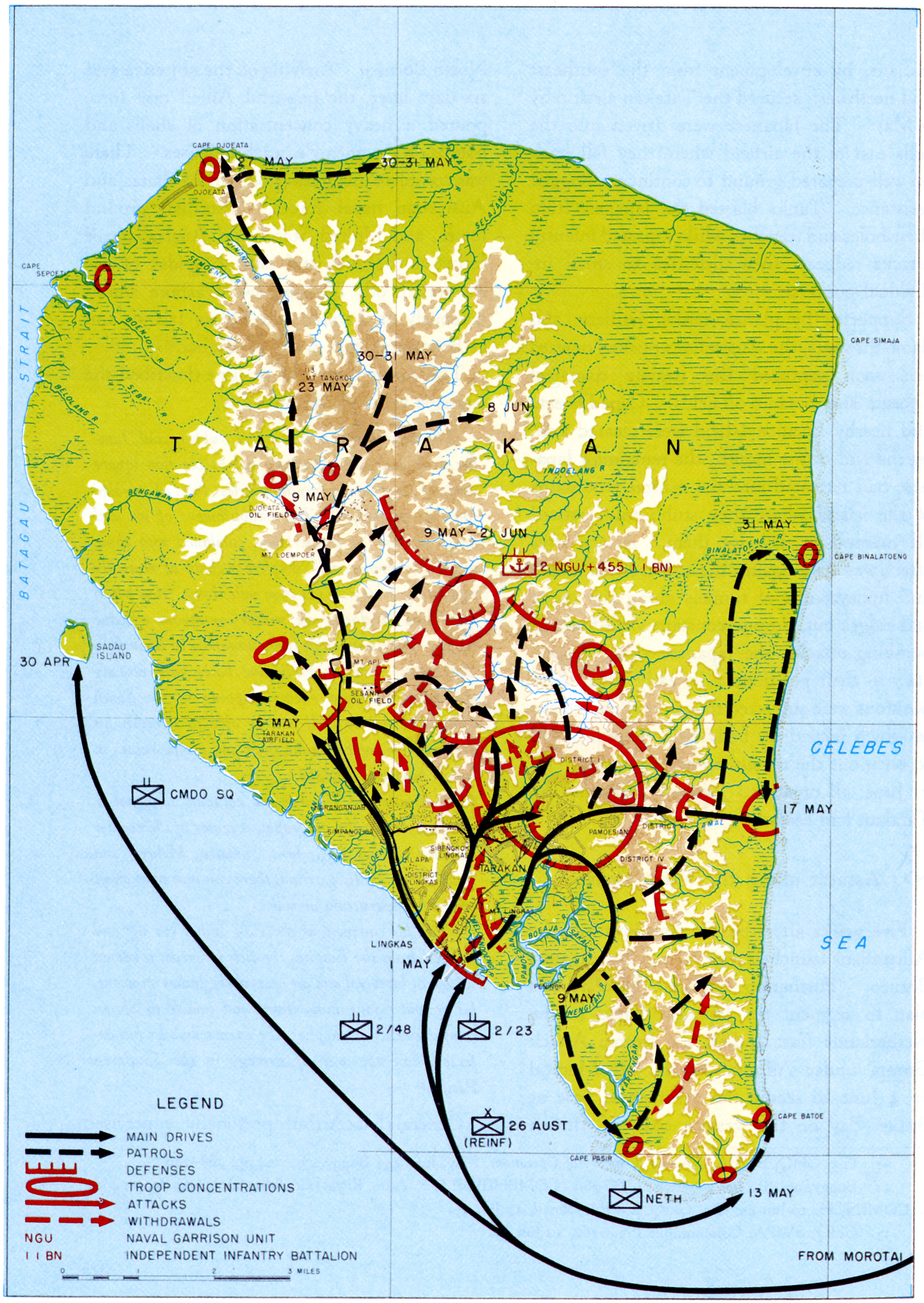 Sourced from: Caption: PLATE NO. 106 Tarakan Operation, 1 May-21 June 1945